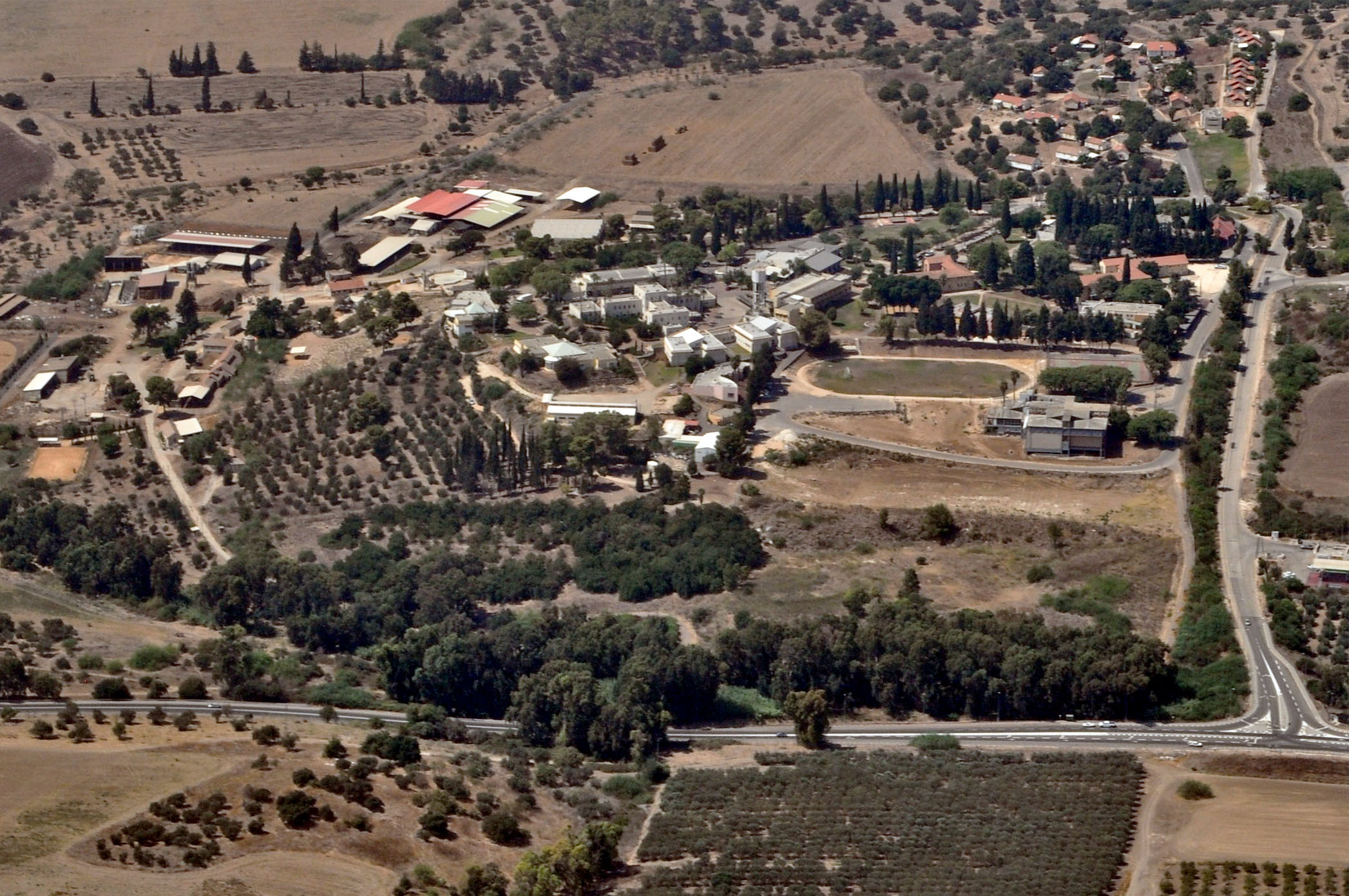 Kadoorie Agricultural High School, September 2013